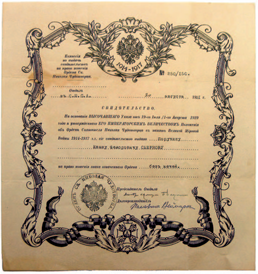 Official diploma of a Knight of the Order of Saint Nicholas the Wonderdoer, Russian Tsarist government in exile in France.